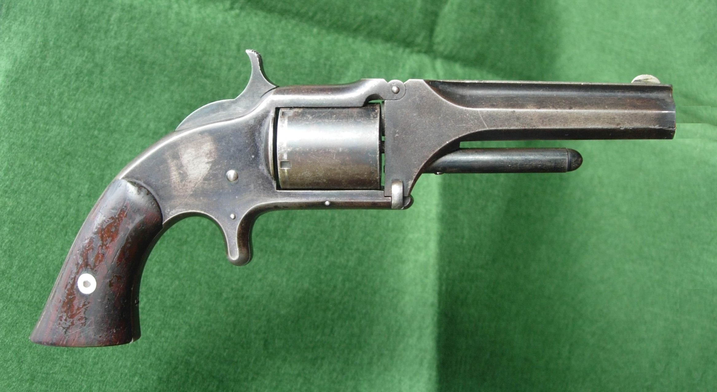 Smith & Wesson rimfire revolver circa 1865-1868